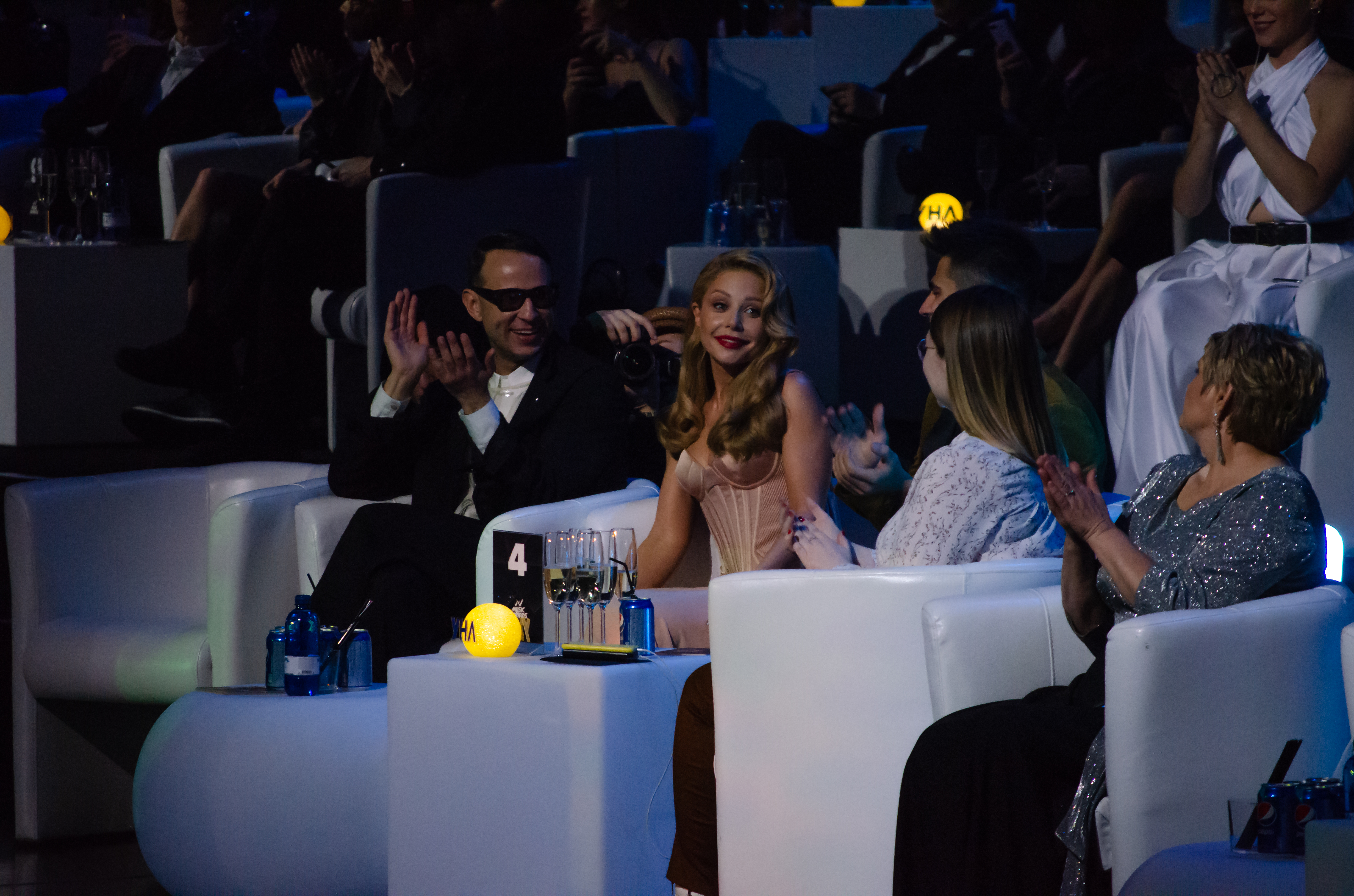 M1 Music Awards 2019, Kyiv, Palace of Sports, November 30, 2019.